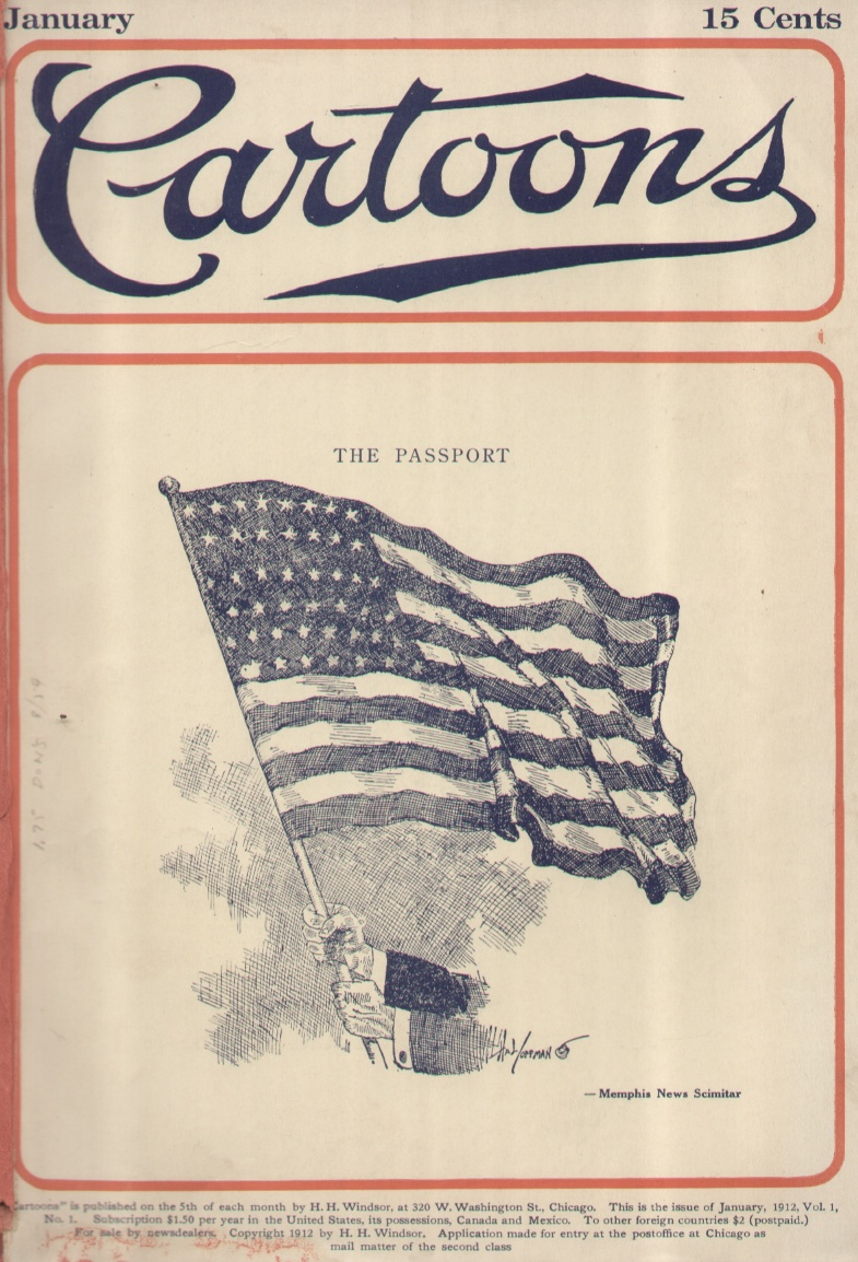 Cover of the Cartoons Magazine, Vol. 1, No. 1